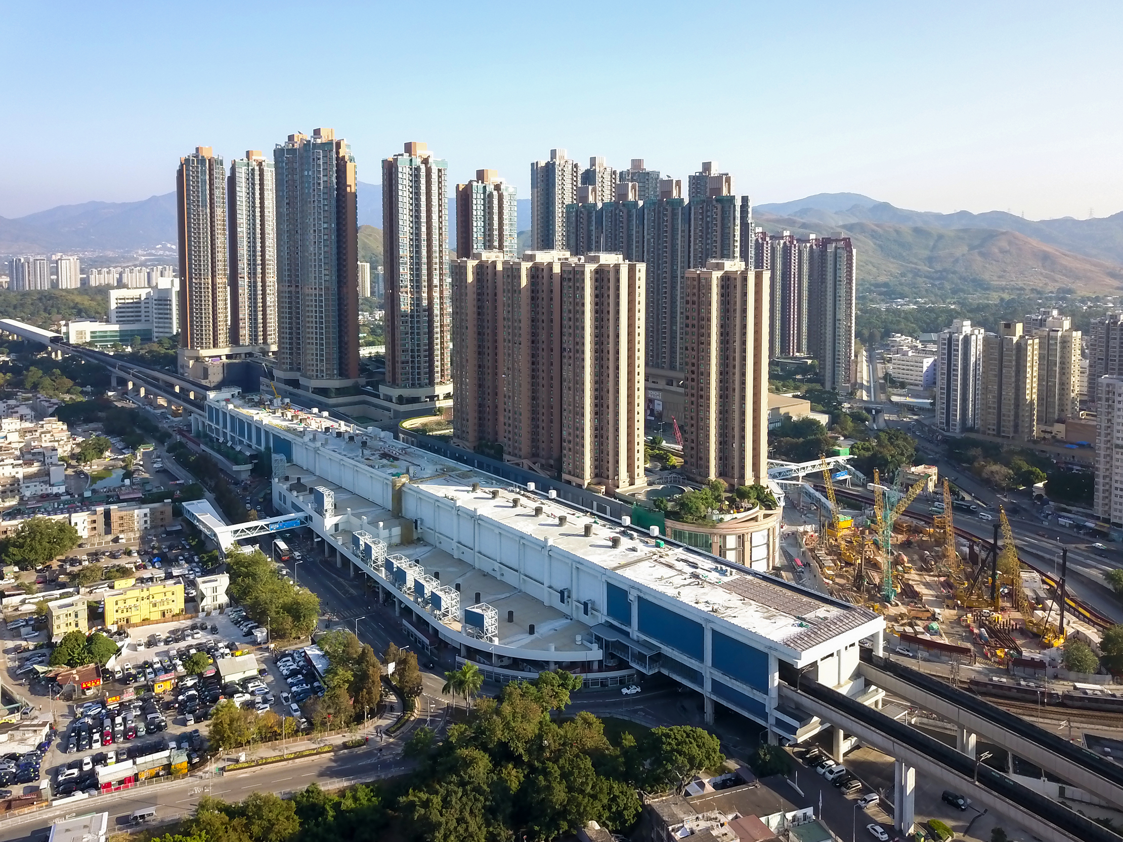 Yuen Long Station Site Aerial view